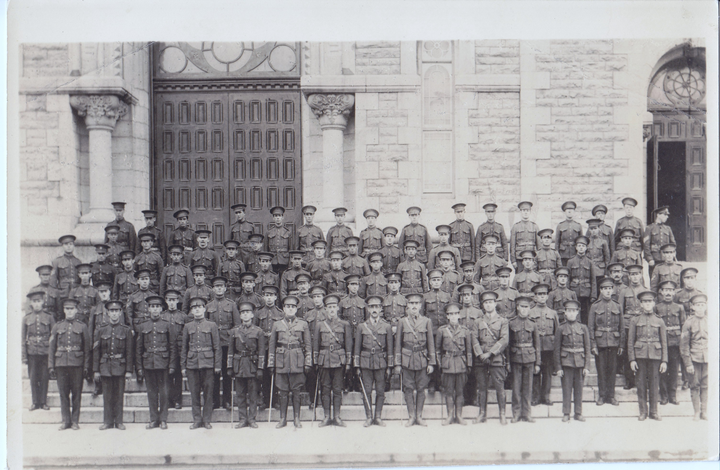 Members of Le Régiment de Hull, Hull, ca. 1922 on the steps of the Hull Cathedral, in Hull, Québec.